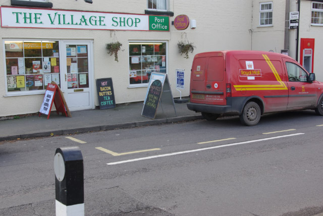 Stanley Post Office Village facilities: post office, general stores, cash machine and bus stop for the half-hourly service into Derby. The Royal Mail van has called by to make the Saturday morning collection.